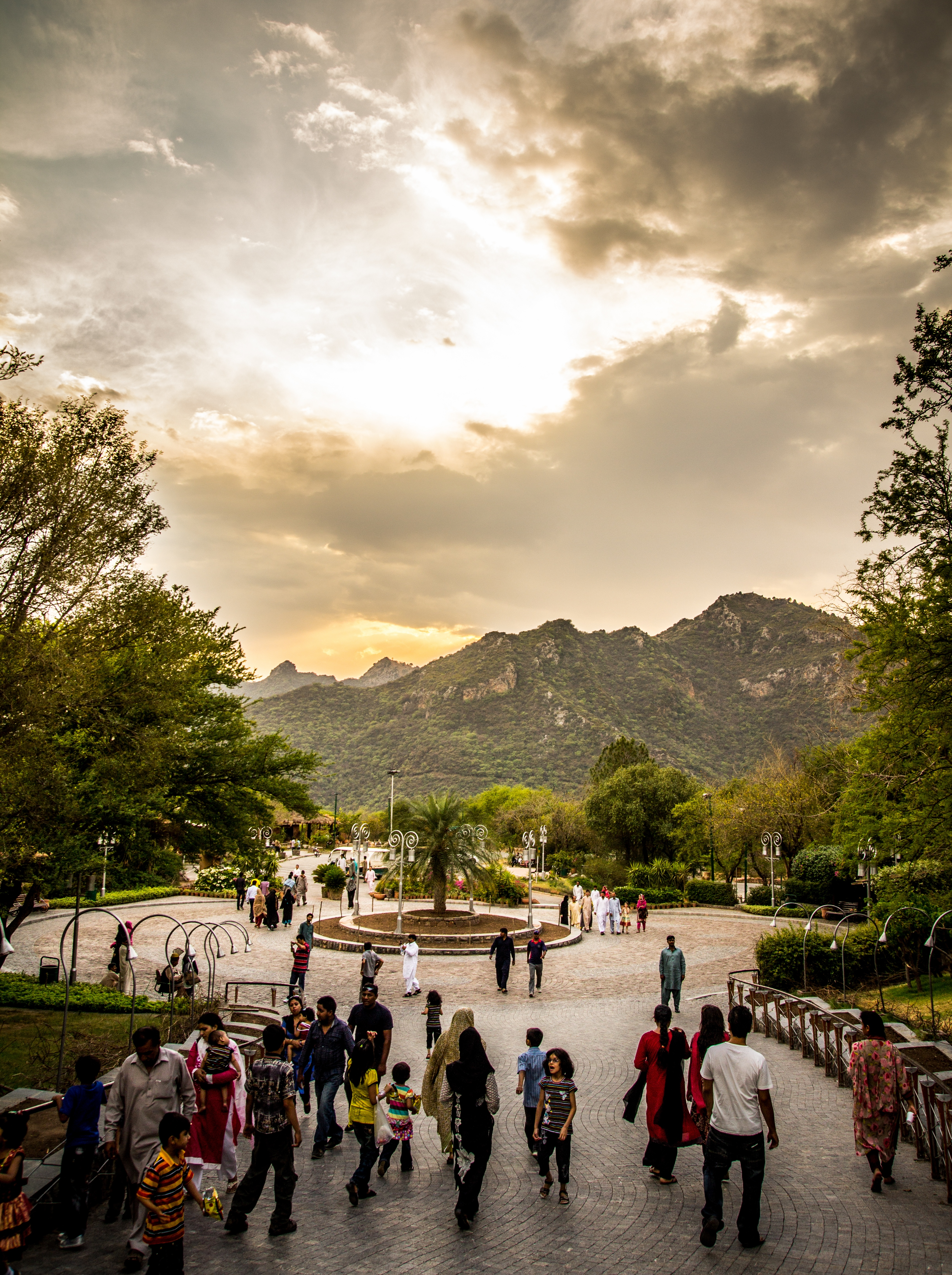 Daman-E-Koh Park, Islamabad at the Golden hour